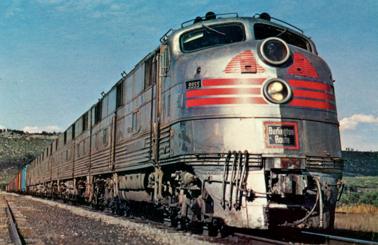 Postcard photo of a Burlington EMD E5 locomotive pulling a freight train in Colorado. These locomotives were built circa 1940-1941 and were originally used on the passenger Zephyr service.